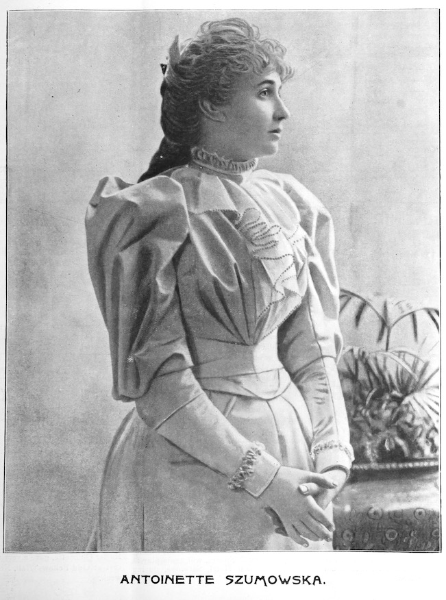 Cover image of Antoinette Szumowska from Freund's musical weekly, Vol. 9, no. 6